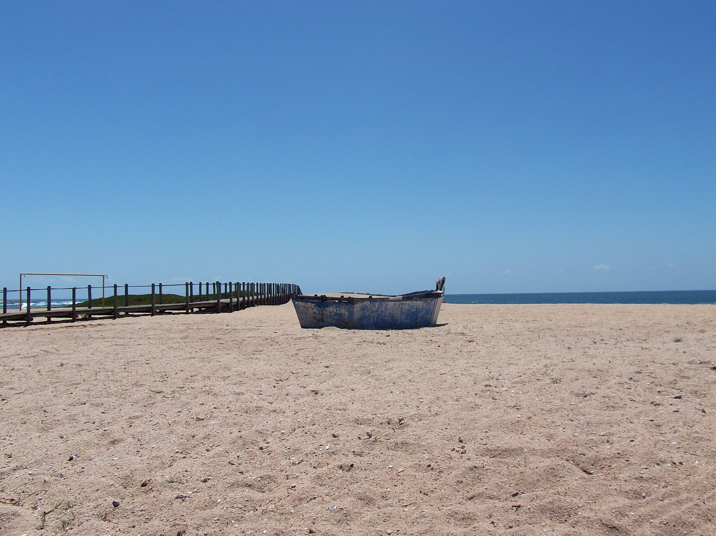 Quião Beach, Póvoa de Varzim, Portugal